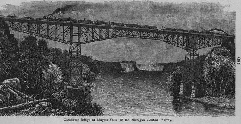 "Cantilever Bridge at Niagara Falls, on the Michigan Central Railway." Page 85 of Illustrated Guide to Niagara Falls, Buffalo and Neighboring Points of Interest, also titled A New Guide To Niagara Falls And Vicinity, Giving A Full And Complete Description of Niagara Falls, Suspension Bridge, Buffalo, Rochester, Ontario Beach, Toronto, Lockport, Tonawanda, Lewiston, Niagara-On-The-Lake, Chautauqua, And Other Places Of Interest. from Rand McNally